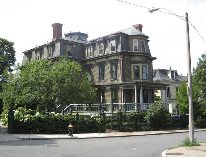 My photo